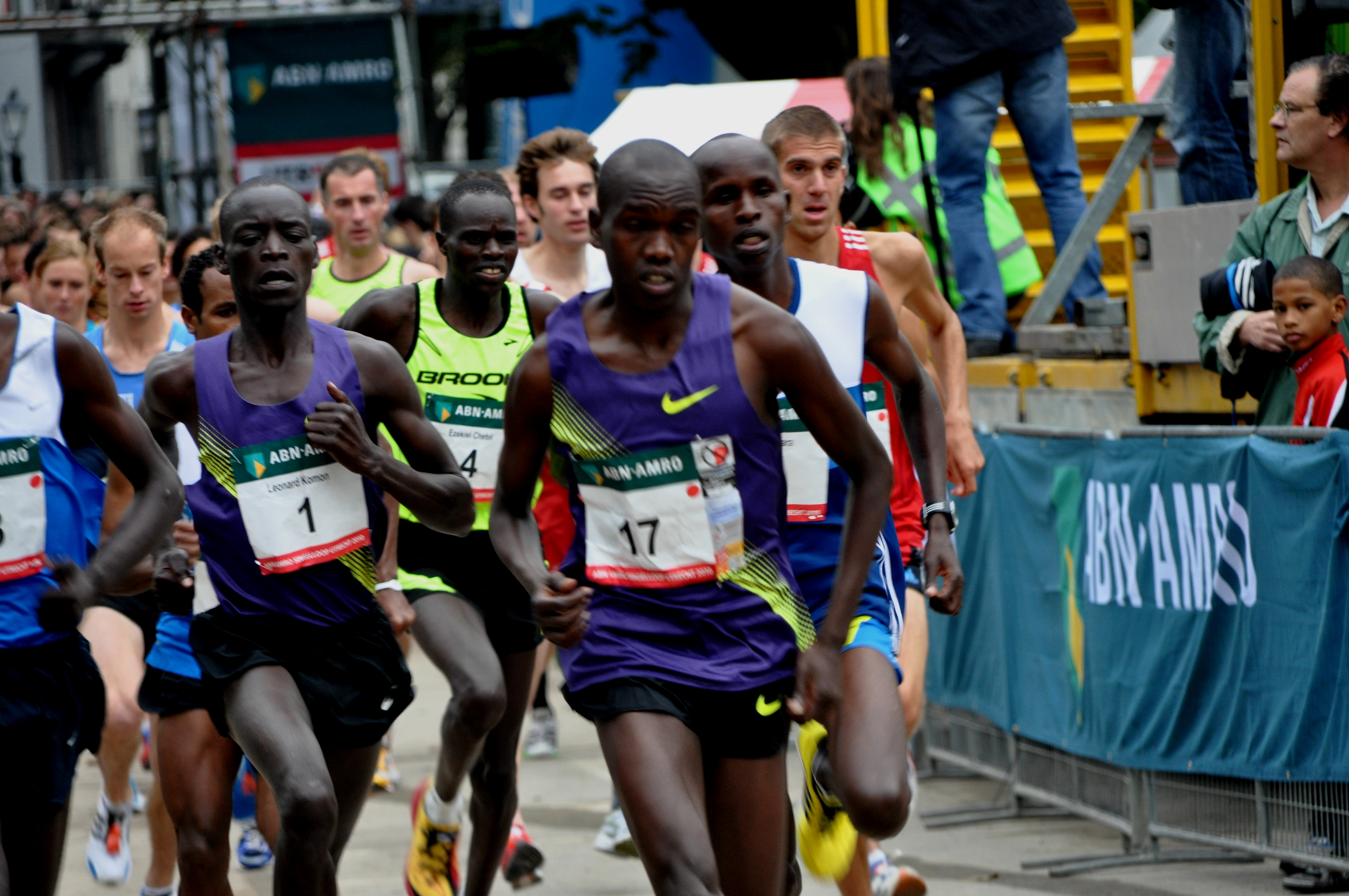 Start of the 2010 Utrecht Singelloop - Leonard Komon (1) and Boniface Kirui (17) at the beginning of the race. Komon went on to set a world record for the 10K.